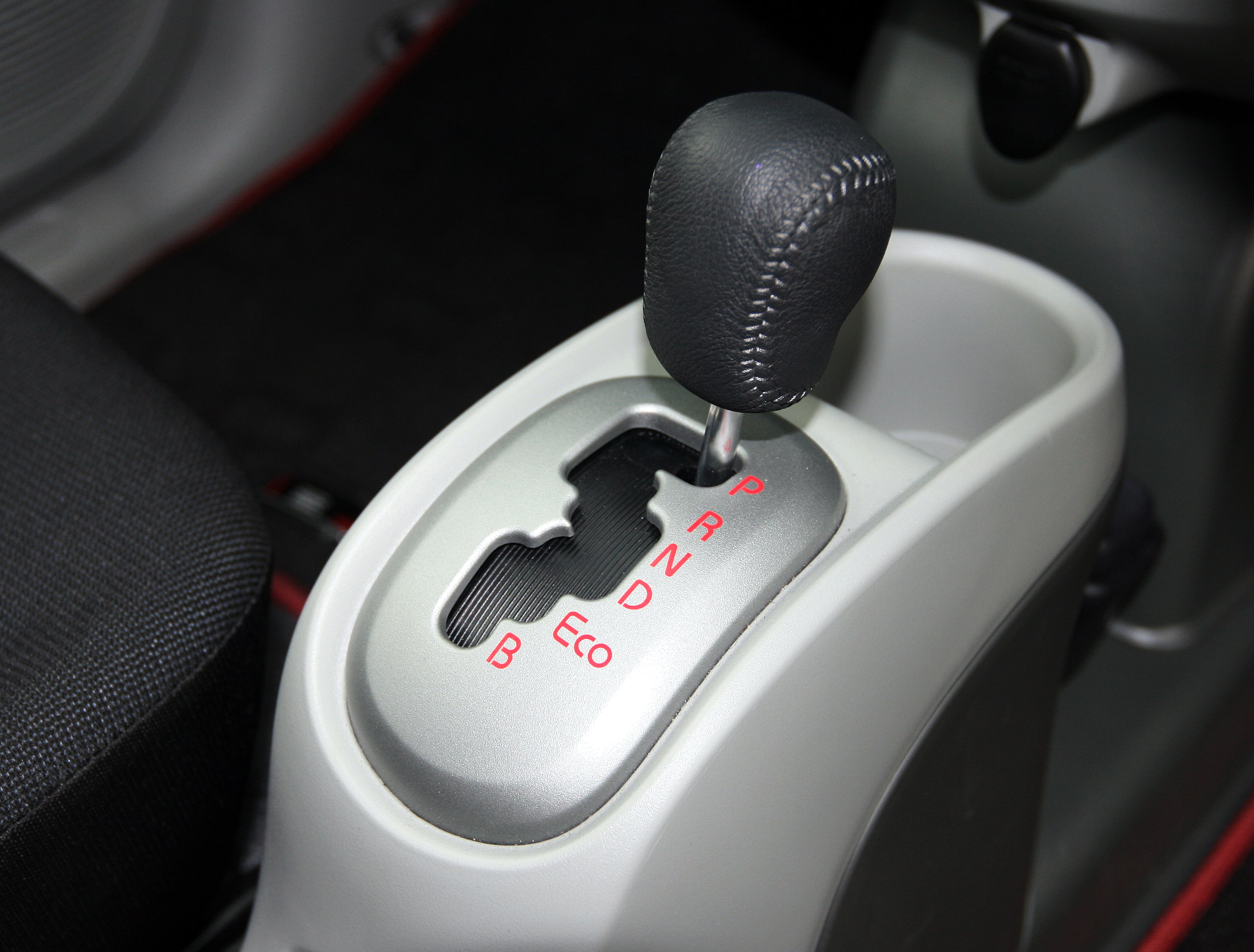 Motorsport Japan 2008: Mitsubishi i MiEV, gear stick